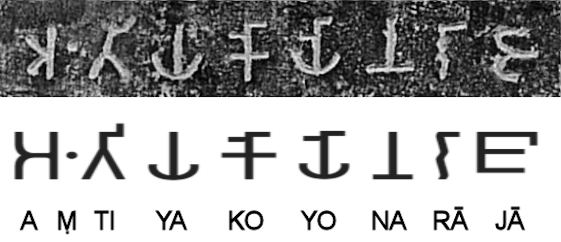 Amtiyako Yona Raja in Major Rock Edicts No2 in Girnar